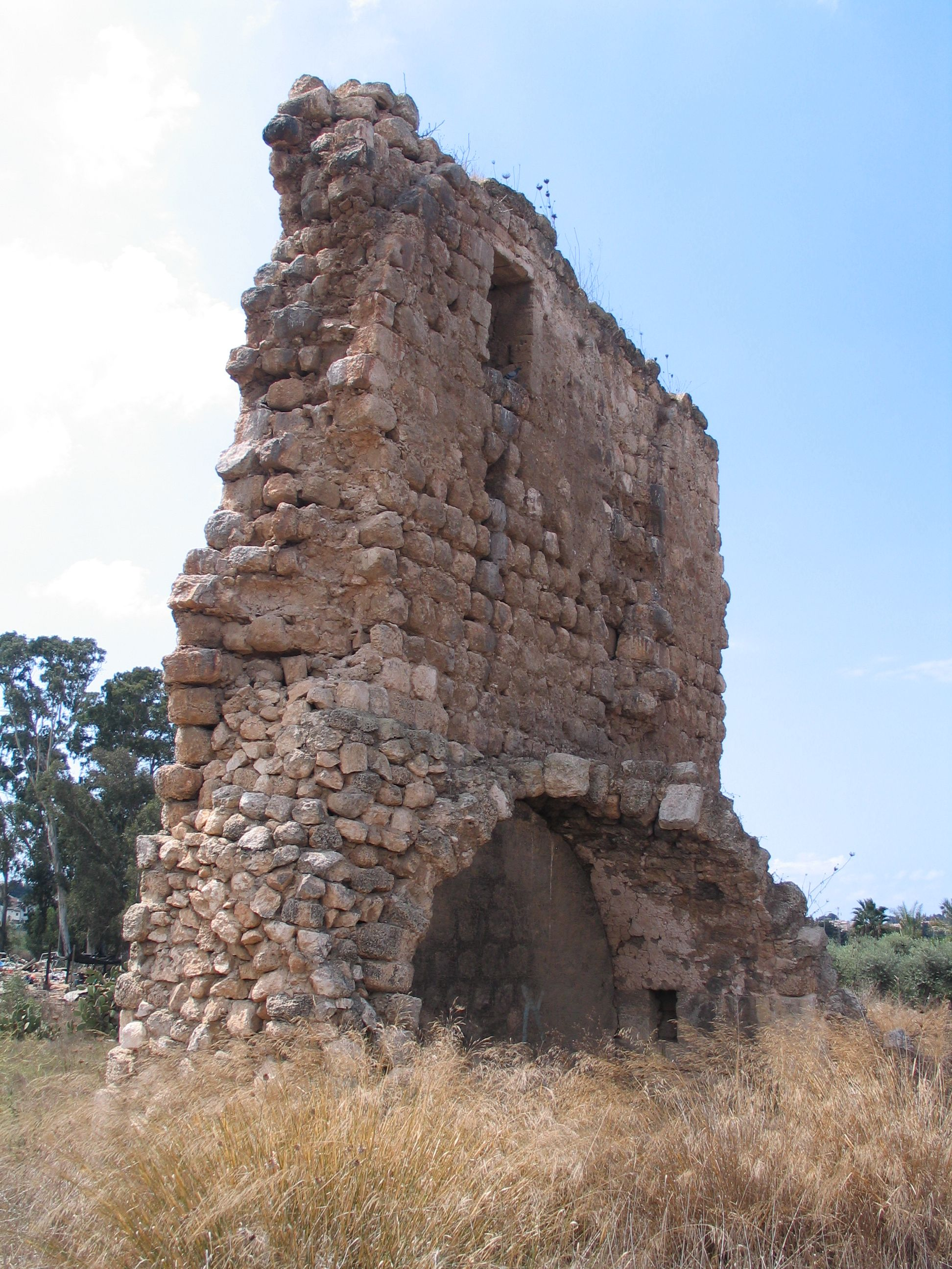 Hurvat Burgata (Burj al-Atut / Burj al-Ahmar / Turris Rubea etc.).